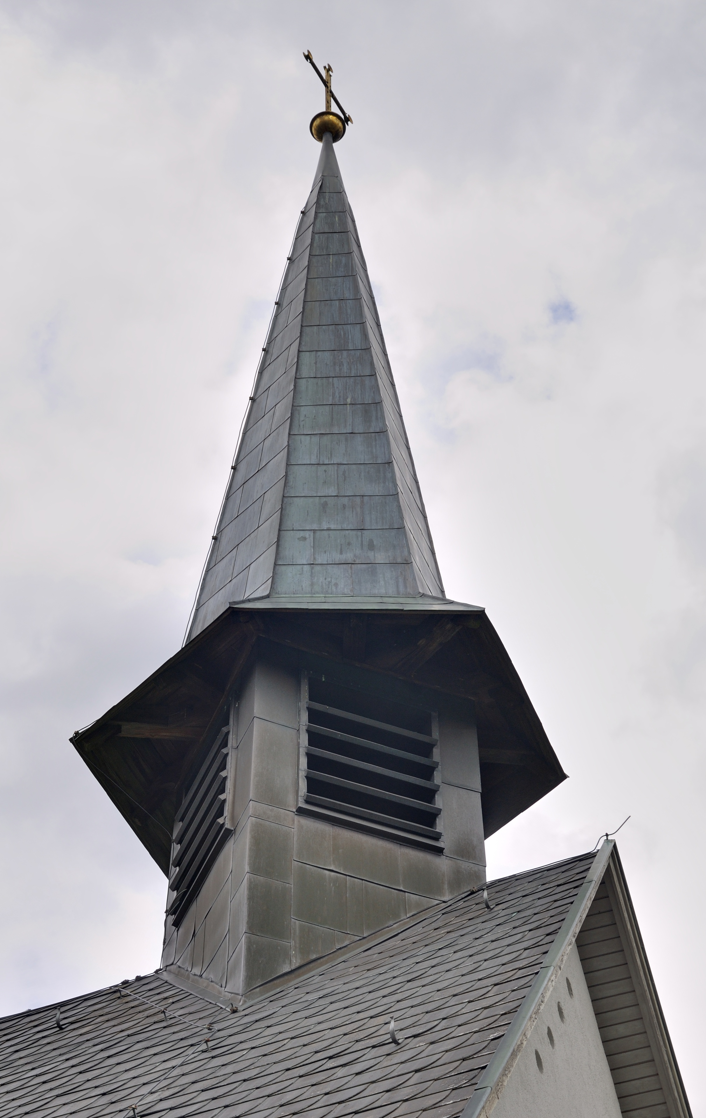 Tegernau: Catholic Church